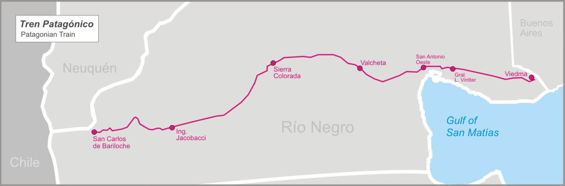 Map of the "Tren Patagónico" railway route. The line is currrently operated by the Government of Río Negro Province of Argentina.